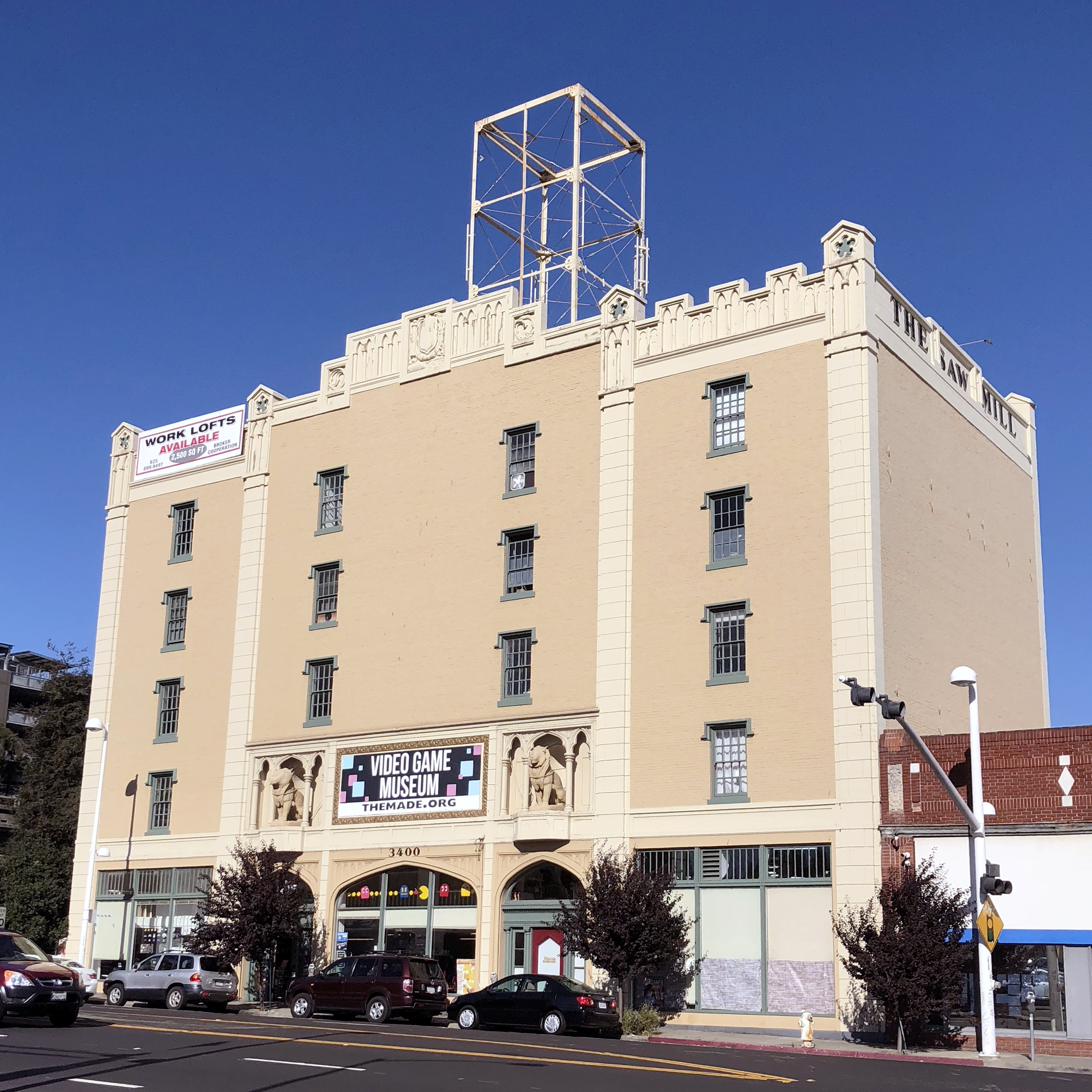 The Museum of Art and Digital Entertainment at 3400 Broadway in Oakland, California.